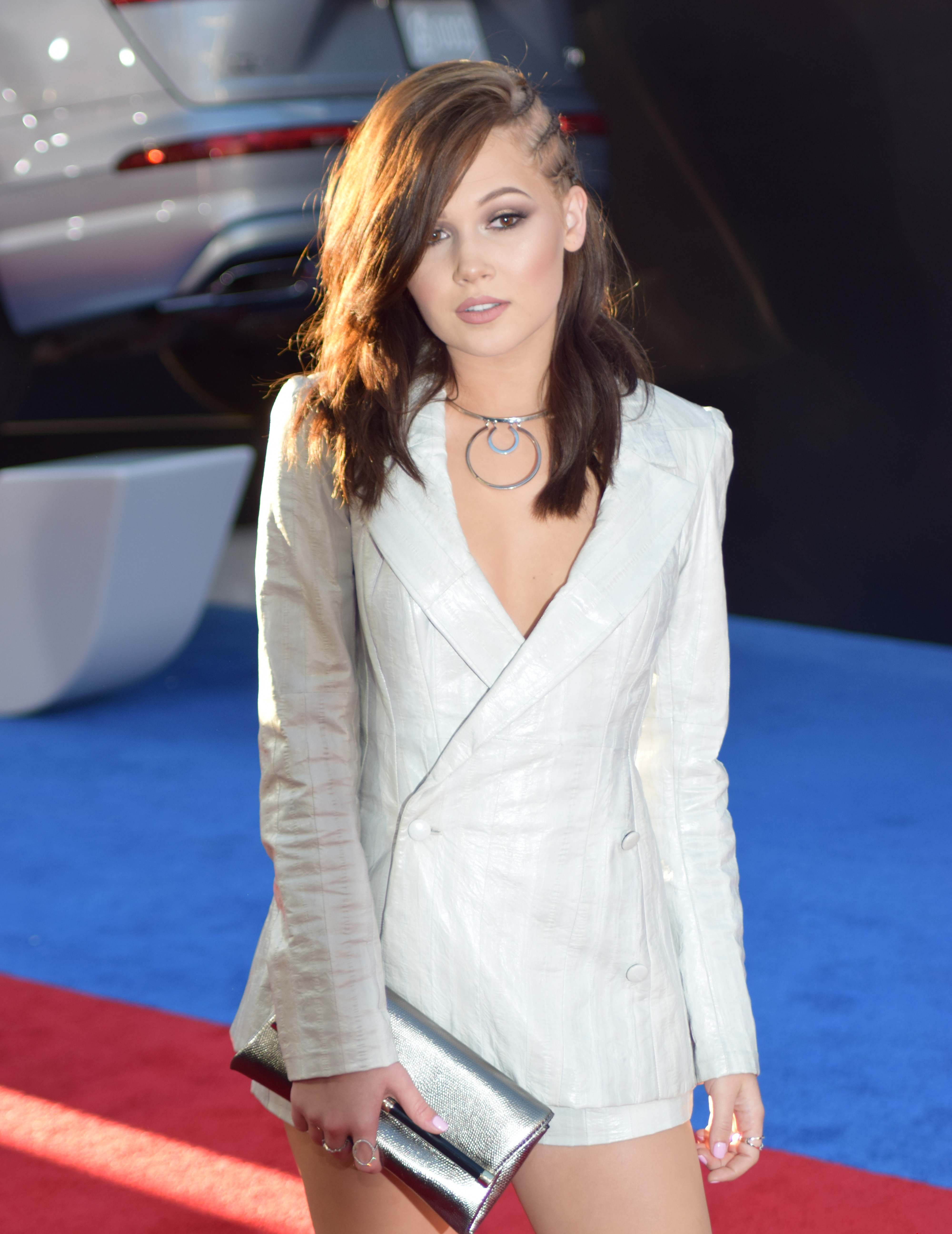 Kelli Berglund (Disney XD's Lab Rats Elite Force) at the World Premiere of Marvel's Captain America- Civil War Mingle Media TV and our Red Carpet Report team were on the red carpet for the premiere of Marvel's Captain America: Civil War at the Dolby Theatre in Hollywood, CA. Marvel's Captain America: Civil War opens in U.S. theaters, May 6th For video interviews and other Red Carpet Report coverage, please visit and follow us on Twitter and Facebook at: ABOUT Captain America: Civil War Political pressure mounts to install a system of accountability when the actions of the Avengers lead to collateral damage. The new status quo deeply divides members of the team. Captain America (Chris Evans) believes superheroes should remain free to defend humanity without government interference. Iron Man (Robert Downey Jr.) sharply disagrees and supports oversight. As the debate escalates into an all-out feud, Black Widow (Scarlett Johansson) and Hawkeye (Jeremy Renner) must pick a side. Release date: May 6, 2016 (USA) Directors: Joe Russo, Anthony Russo Producer: Kevin Feige Production companies: Marvel Studios, Marvel Entertainment Follow @CaptainAmerica on Twitter and like Marvel’s Captain America on Facebook at Follow Marvel on Twitter: Like Marvel on FaceBook: For more of Mingle Media TV’s Red Carpet Report coverage, please visit our website and follow us on Twitter and Facebook here